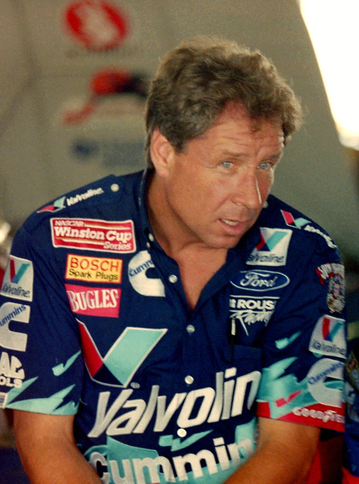 NASCAR crew chief Jimmy Fennig (original pic includes Mark Martin)